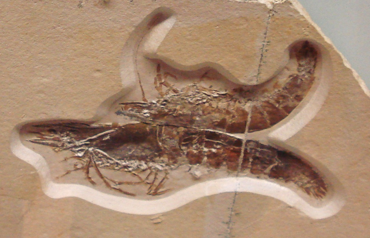 fossil of Antrimpos undenarius